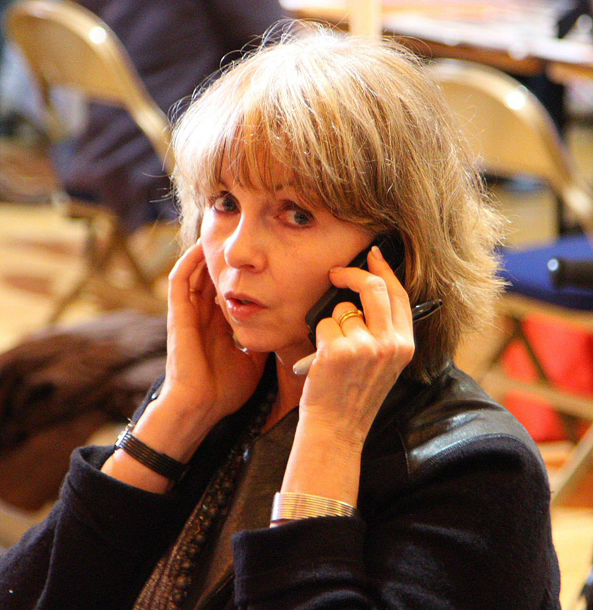 The actress Lalla Ward, pictured while appearing at the Geek Fest 2014 science fiction convention in Folkestone, England, UK.